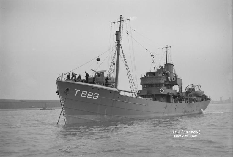 British naval trawler HMT BREDON at anchor on the Humber.